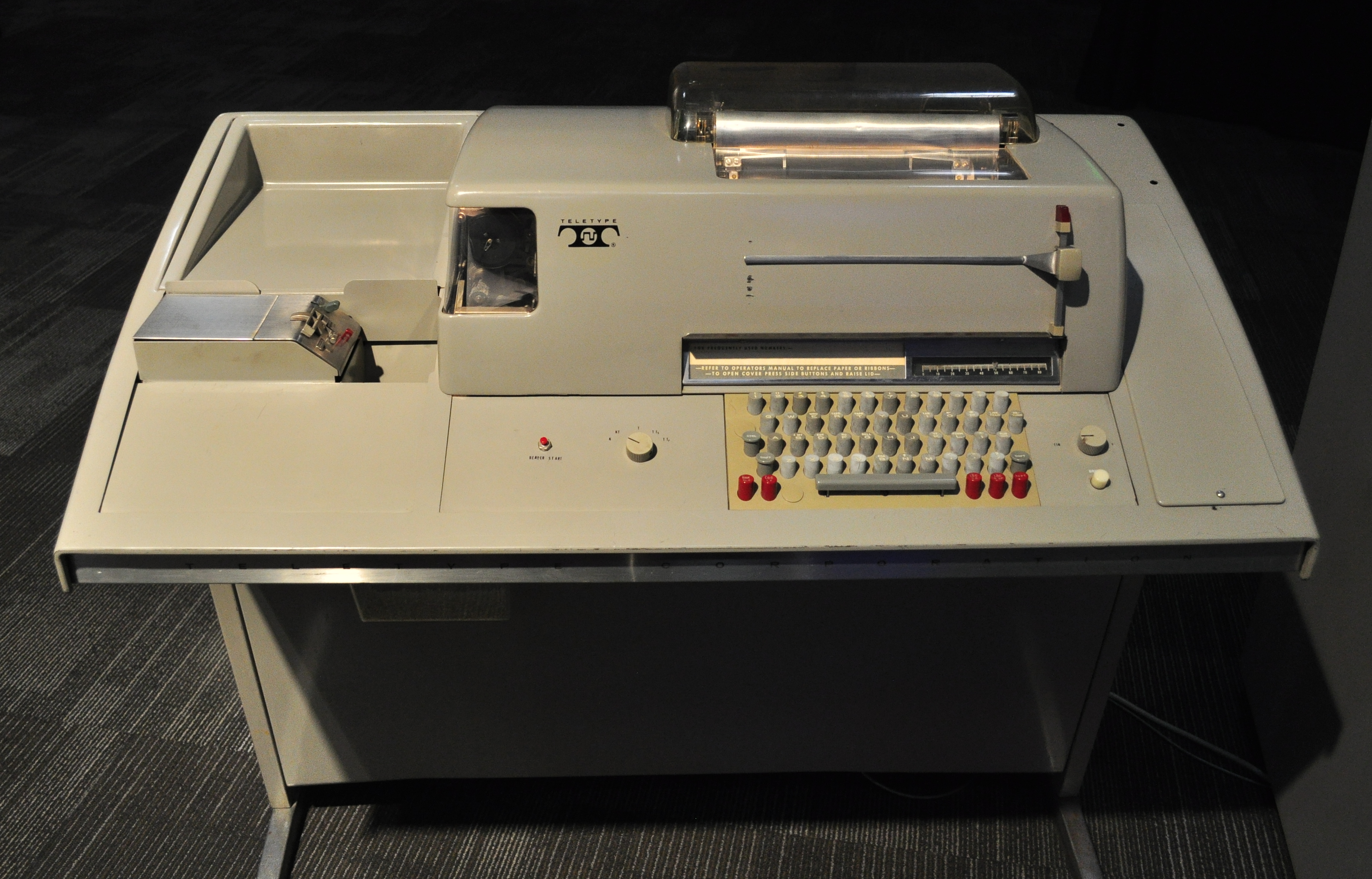 1960s Teletype ASR-35 teleprinter with keyboard and eight-level mechanical tape punch and reader, Living Computer Museum, Seattle, Washington, USA.